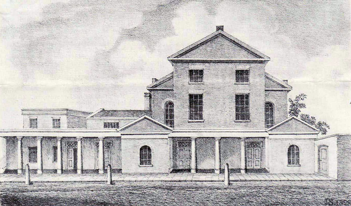 The second Theatre Royal, Norwich, 1828-1934. Image dated 1828. The illusionist and magician Ching Lau Lauro received a bad review here in 1828.